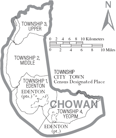 Map of Chowan County, North Carolina, United States with township and municipal boundaries